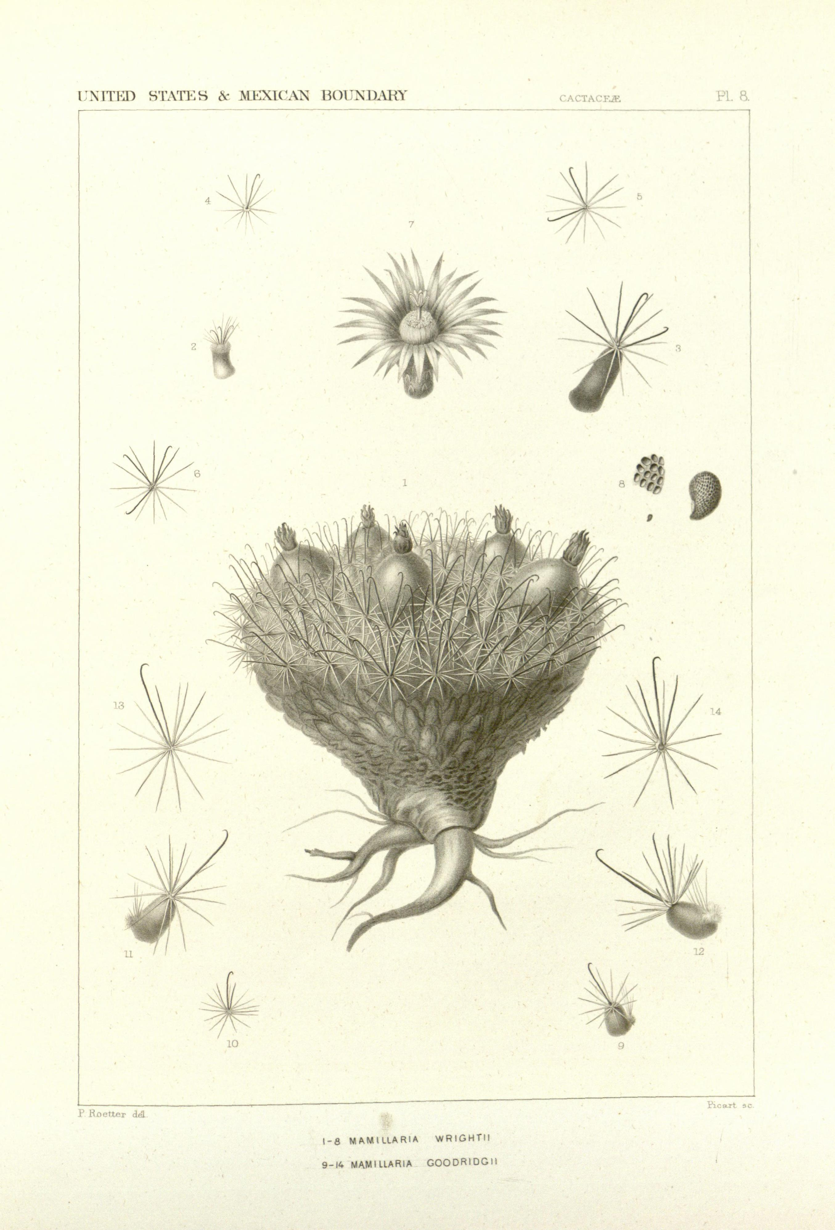 Cactaceae of the boundary / by George Engelmann.